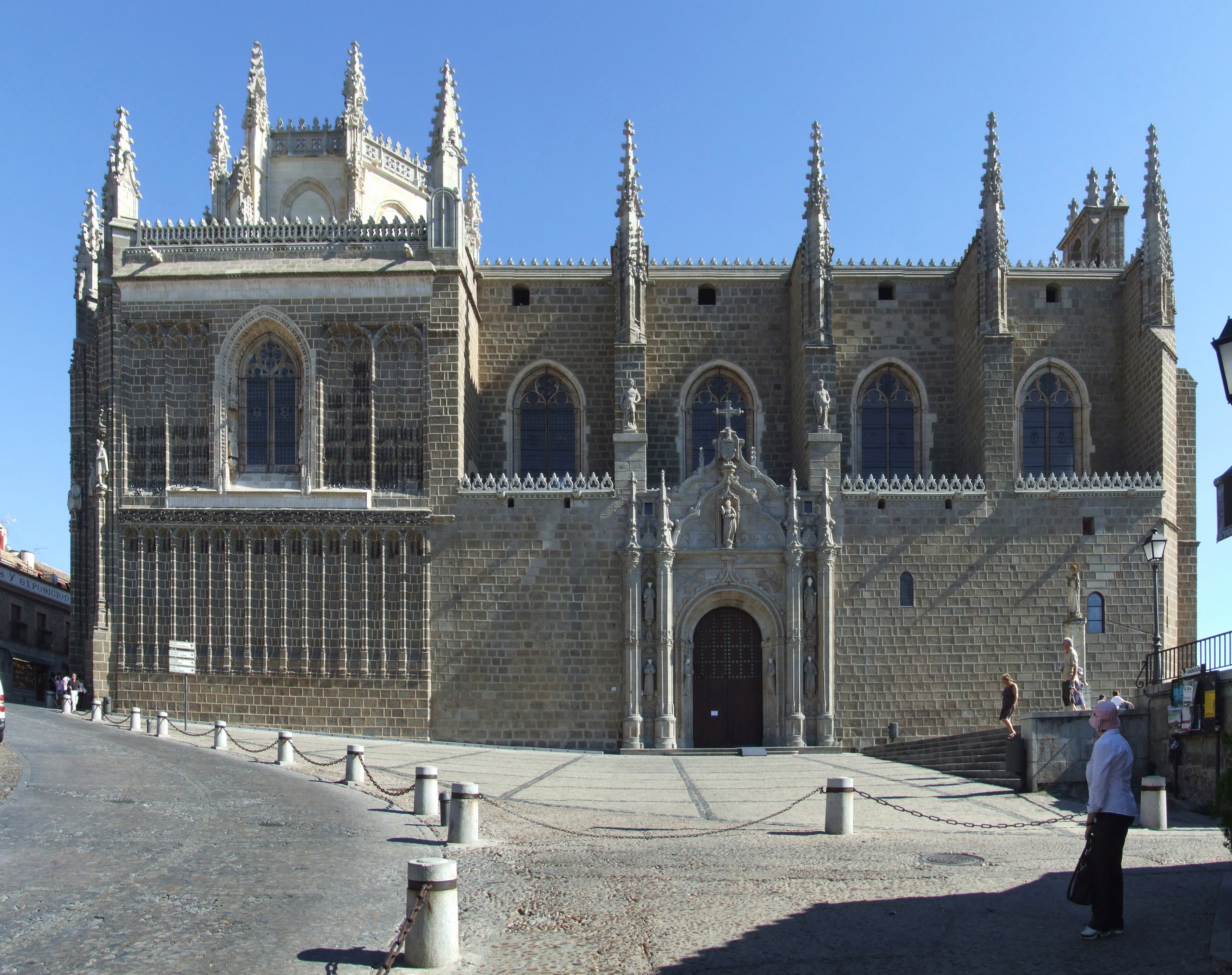 church of Monastery of Saint John of the Kings. Toledo, Spain